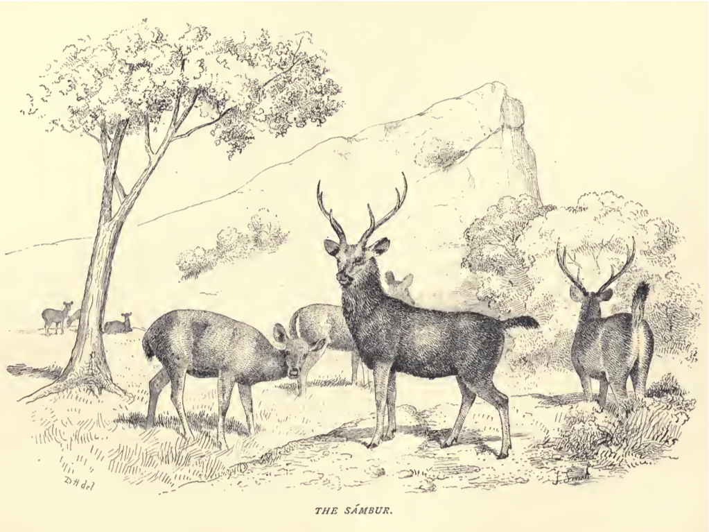 Douglas Hamilton, Sambar bucks & does